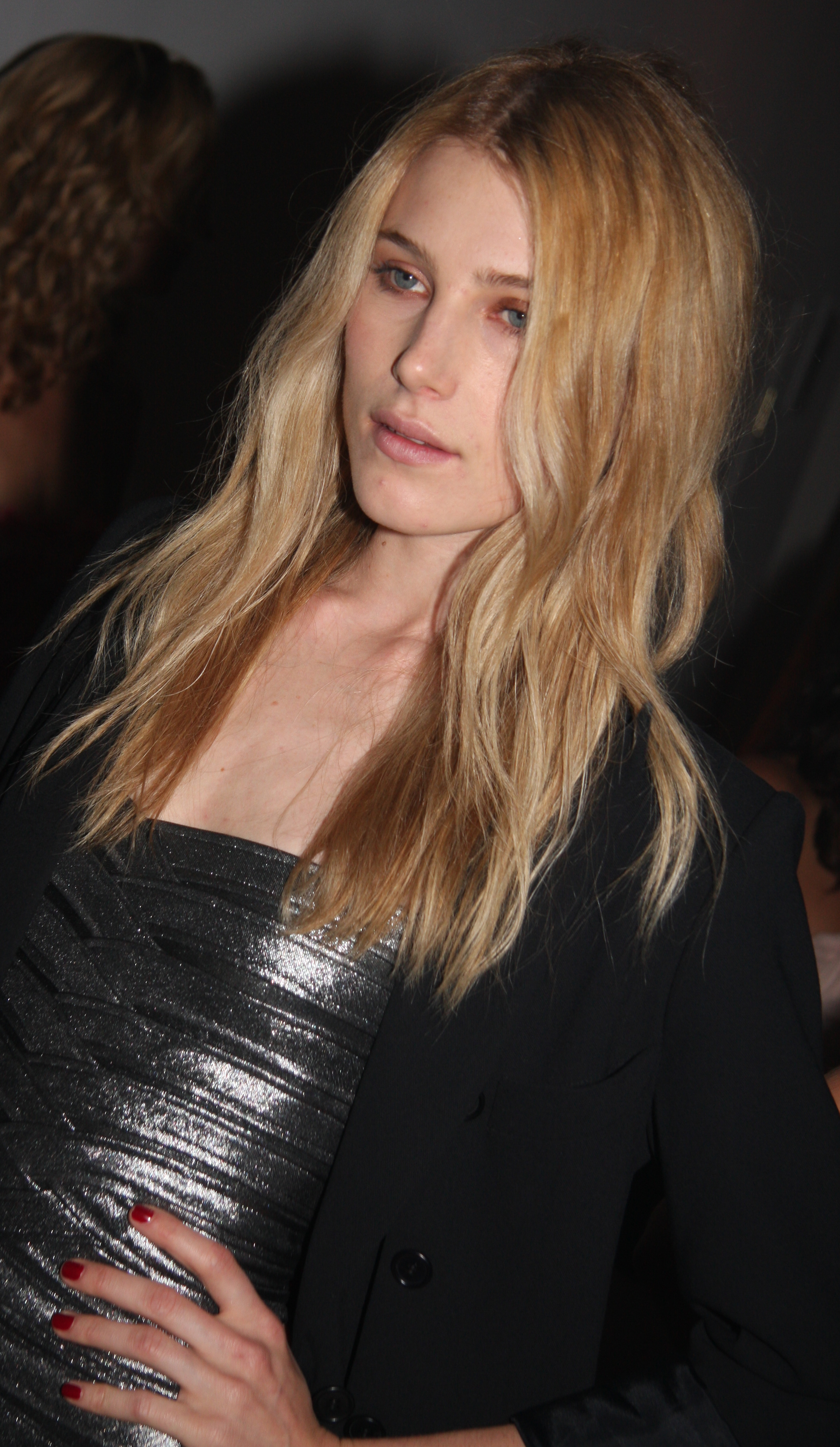 Dree Hemingway in June 2009.